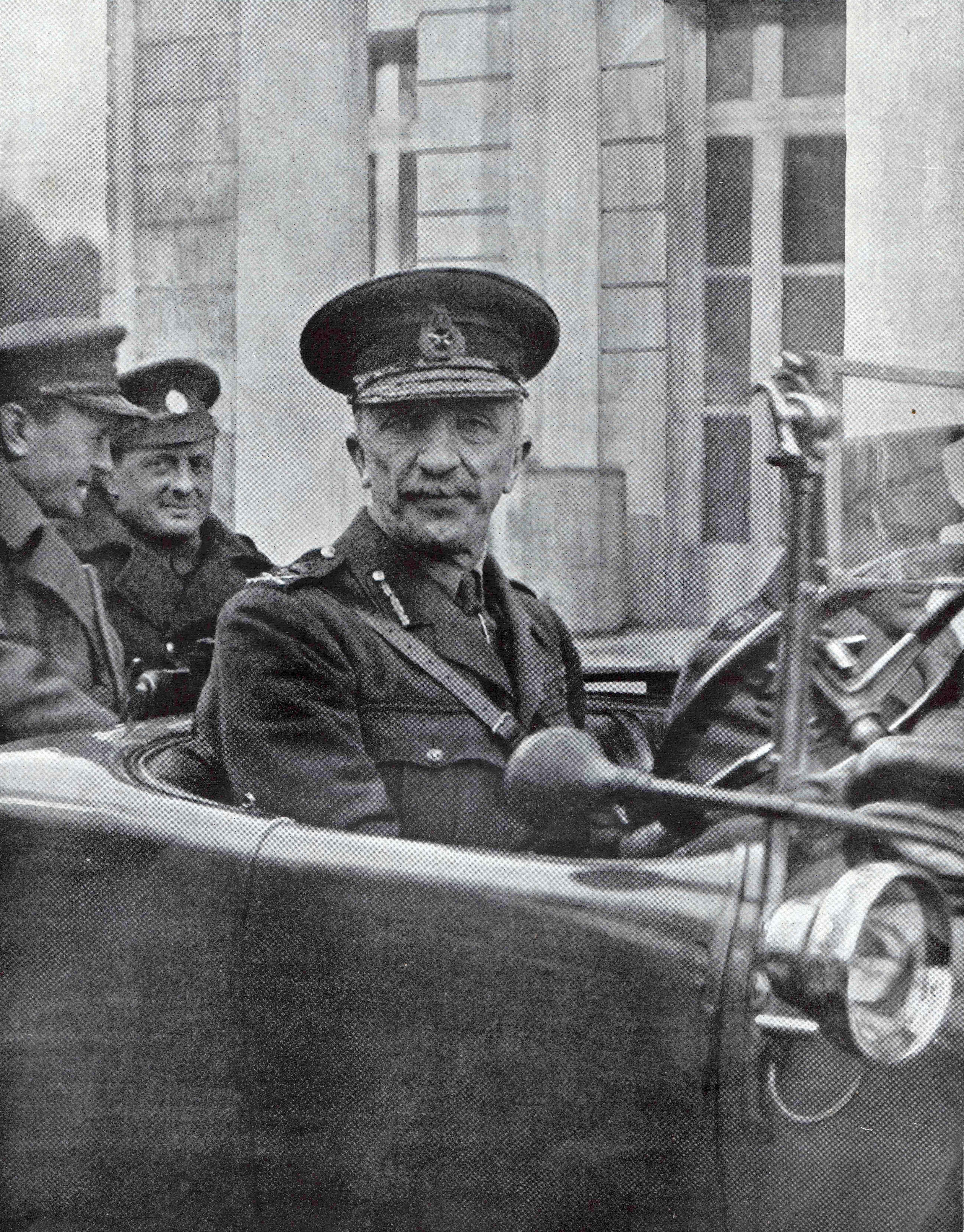 Scan of L'ILLUSTRATION No 3912. Le Général Sir Henry Hugues Wilson.